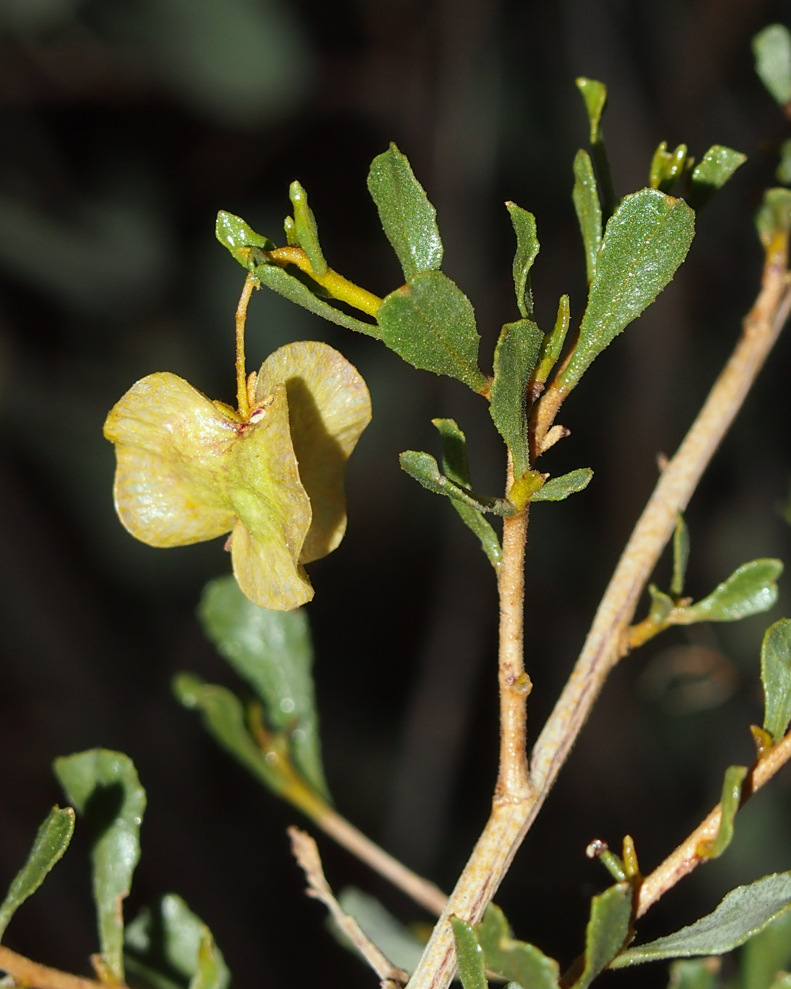 Dodonaea coriacea fruit